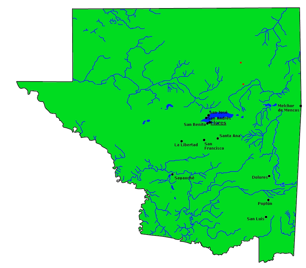 Map of the Peten department of Guatemala.